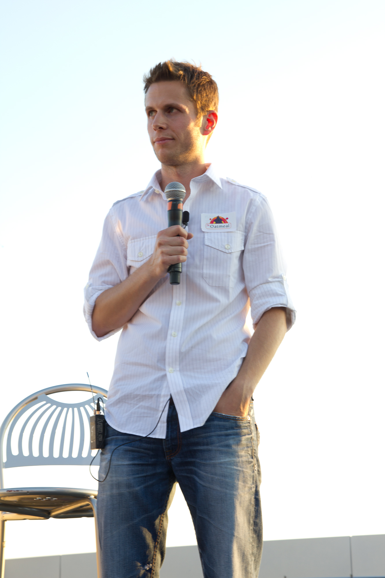 (CC) Randy Stewart, . Feel free to use this picture. Please credit as shown. If you are a person that I have taken a photo of, it's yours (but I'd still be curious as to where it is).